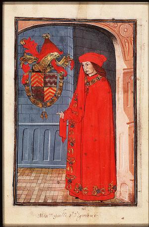 Statuts, Ordonnances et Armorial de l'Ordre de la Toison d'Or (Statutes, Ordonnances and armorial of the Order of the Golden Fleece) Place of origin, date: Southern Netherlands; 1473. Added sections: Southern Netherlands; 1478 or shortly after and 1491 or shortly after Material: Vellum, ff. 86, 249x187 (167x106) mm, 23 lines, littera cursiva (lettre bourguignonne). French. Binding: 18th-century brown leather Decoration: 1 full-page miniature (170x115 mm) with border decoration; 92 miniatures (185/155x120/100 mm); 1 historiated initial (80x90 mm) with border decoration; decorated initials with border decoration (ff., Added section: miniatures ; 4 drawings for miniatures (not finished) Provenance: Presented in 1473 by Gilles Gobet, King of Arms of the Order of the Golden Fleece, to Charles the Bold, Duke of Burgundy and the other Knights during the Chapter of the Order held at Valenciennes; Treasure of the Golden Fleece, Brussls; taken away by the Treasurer C.-F. Humyn (d. 1735) or his daughter C.Ch. de Corte; by legacy to her daughter M.-L. de Corte, wife of Ph.-E. de Poederlé; purchased in 1781 at the Poederlé sale by G.-J- Gérard of Brussels; acquired in 1832 as part of the Gérard collection (no. A 27)